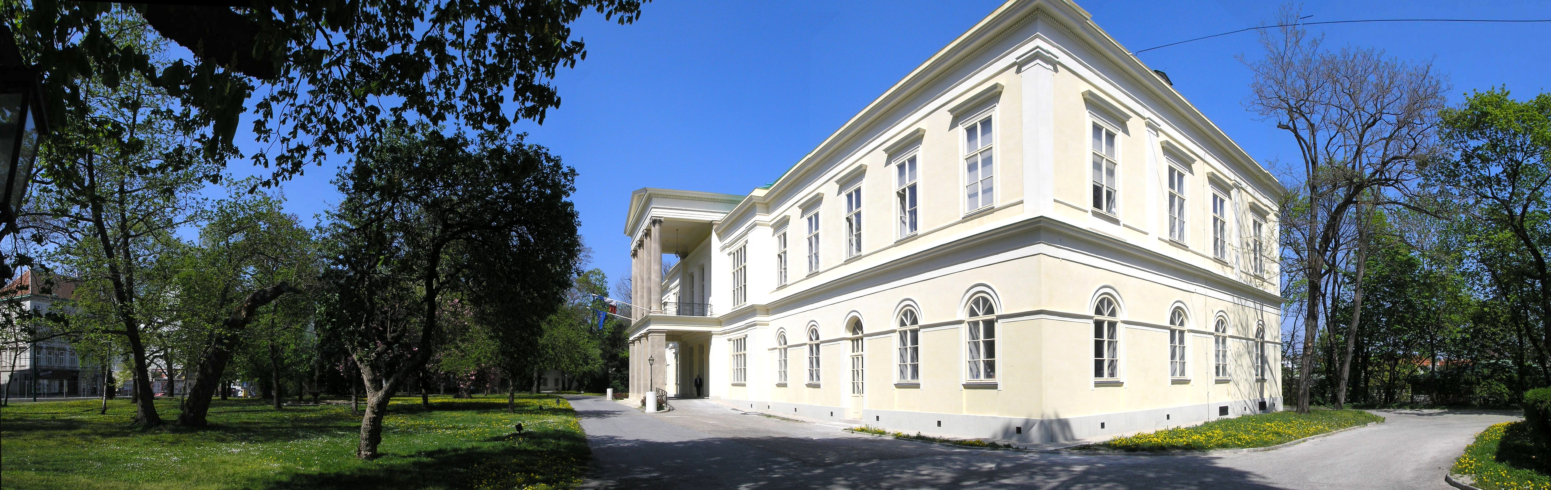 Panorama image of the Palais Clam-Gallas in Vienna, located at Währinger Straße.